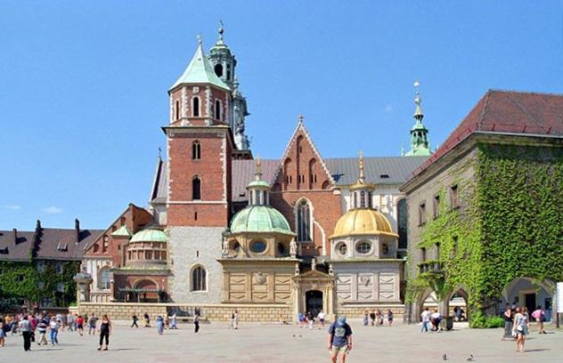 Wawel Krakow by Marek and Ewa Wojciechowscy form with the permission of the auther